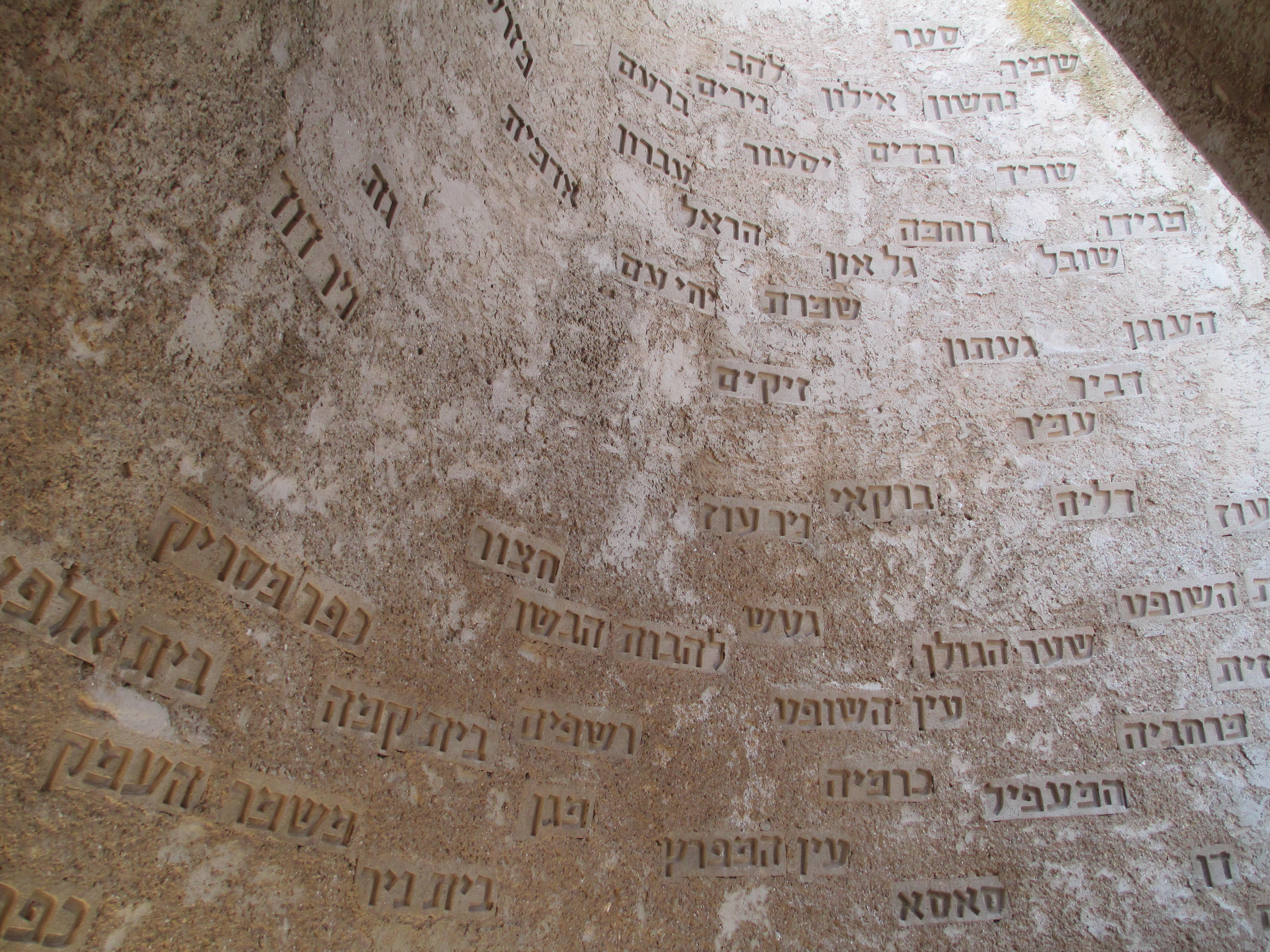 Bitanya Illit